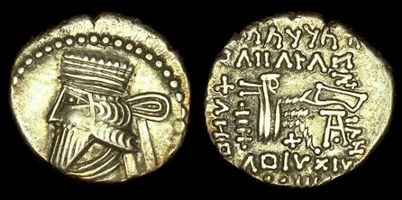 Coin of Mithridates IV of Parthia. Reverse shows a seated archer holding a bow, surrounded by meaningless Greek-like letterforms and a line of Aramaic at top.